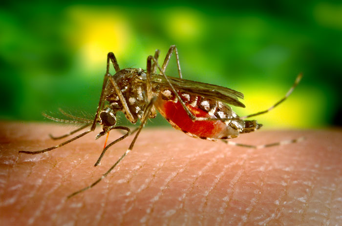 The yellow fever mosquito Aedes aegypti, taking a bloodmeal.